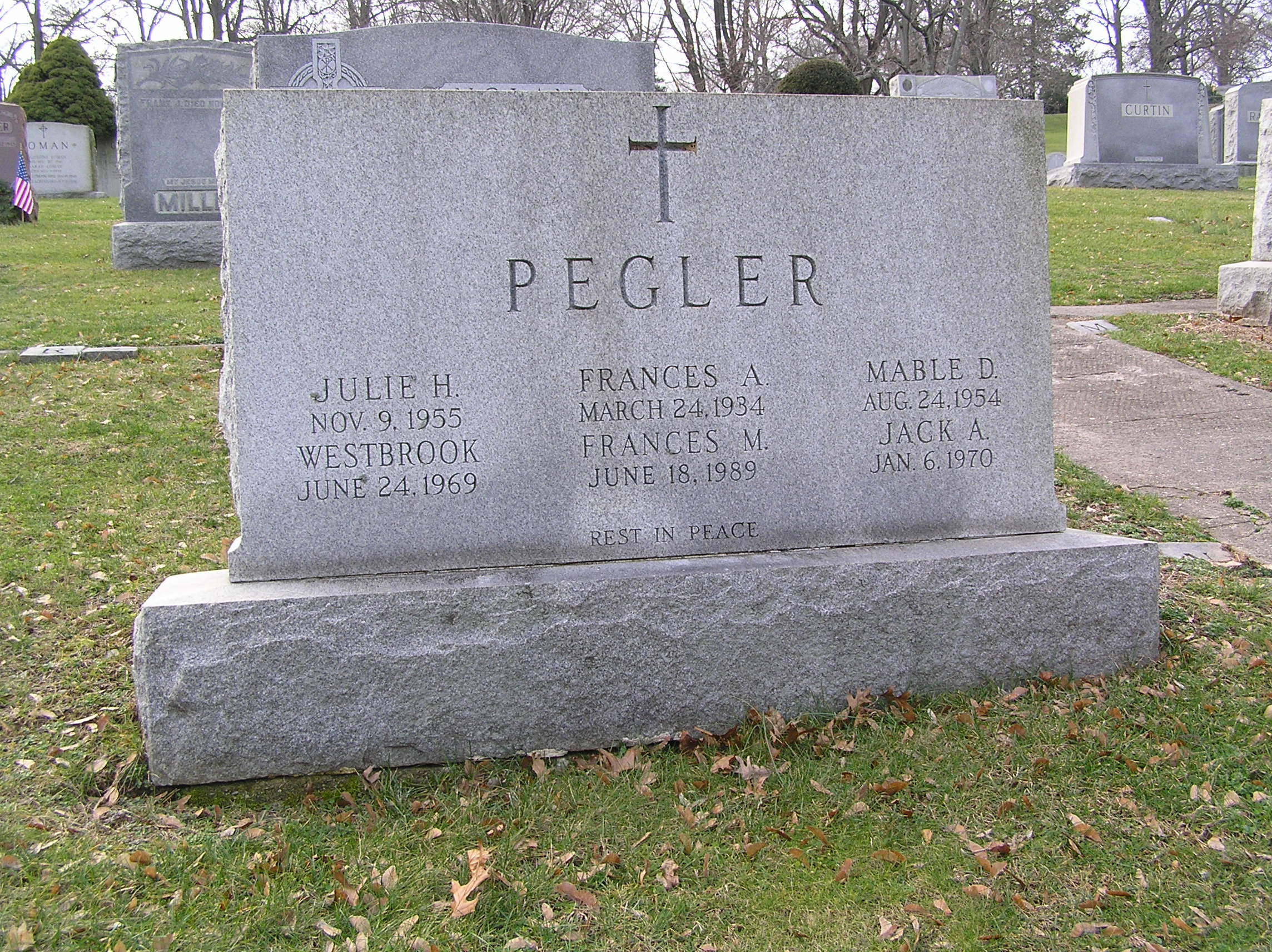 I took this photograph of Westbrook Pegler's headstone in Gate of Heaven Cemetery on December 28, 2006.